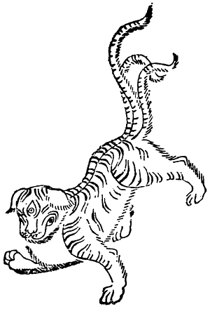 "讙" from the Shan Hai Jing (山海经, Chinese picture)